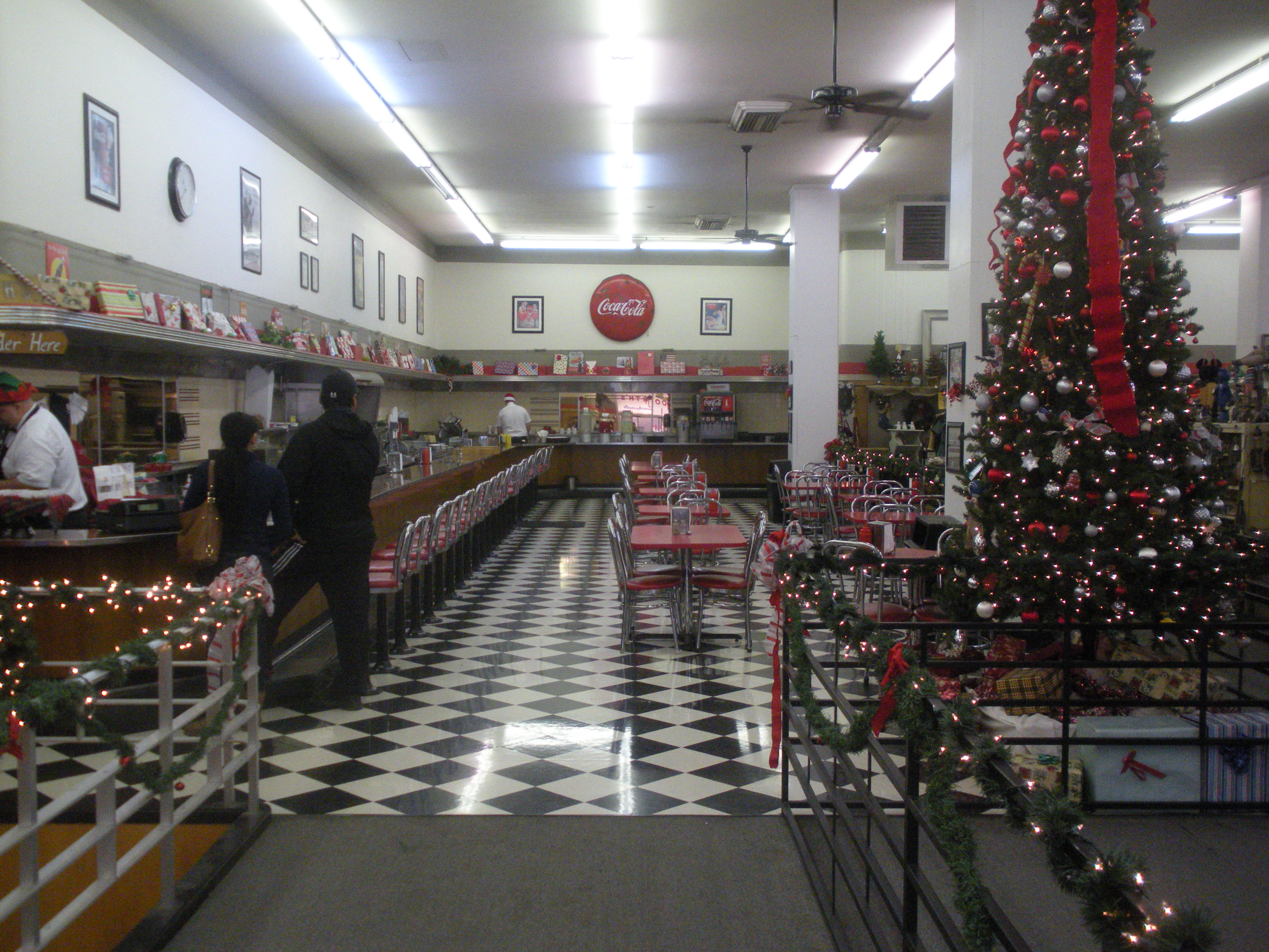 This is Woolworth's Diner in Bakersfield, California. It is the last remaining Woolworth's lunch counter. Originally posted to my Flickr